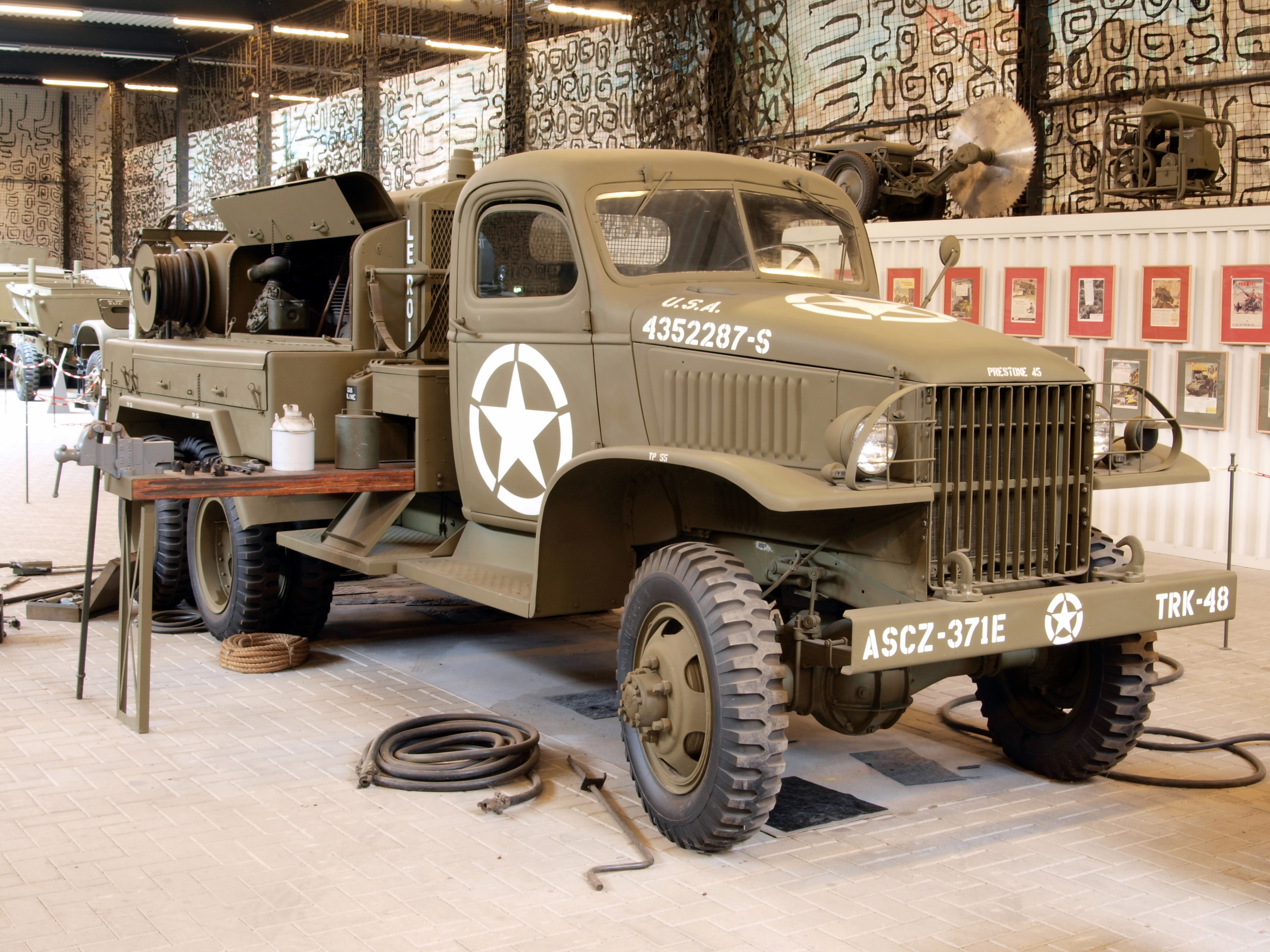 Photographed at the Marshallmuseum - Liberty Park - Oorlogsmuseum Overloon, The Netherlands.